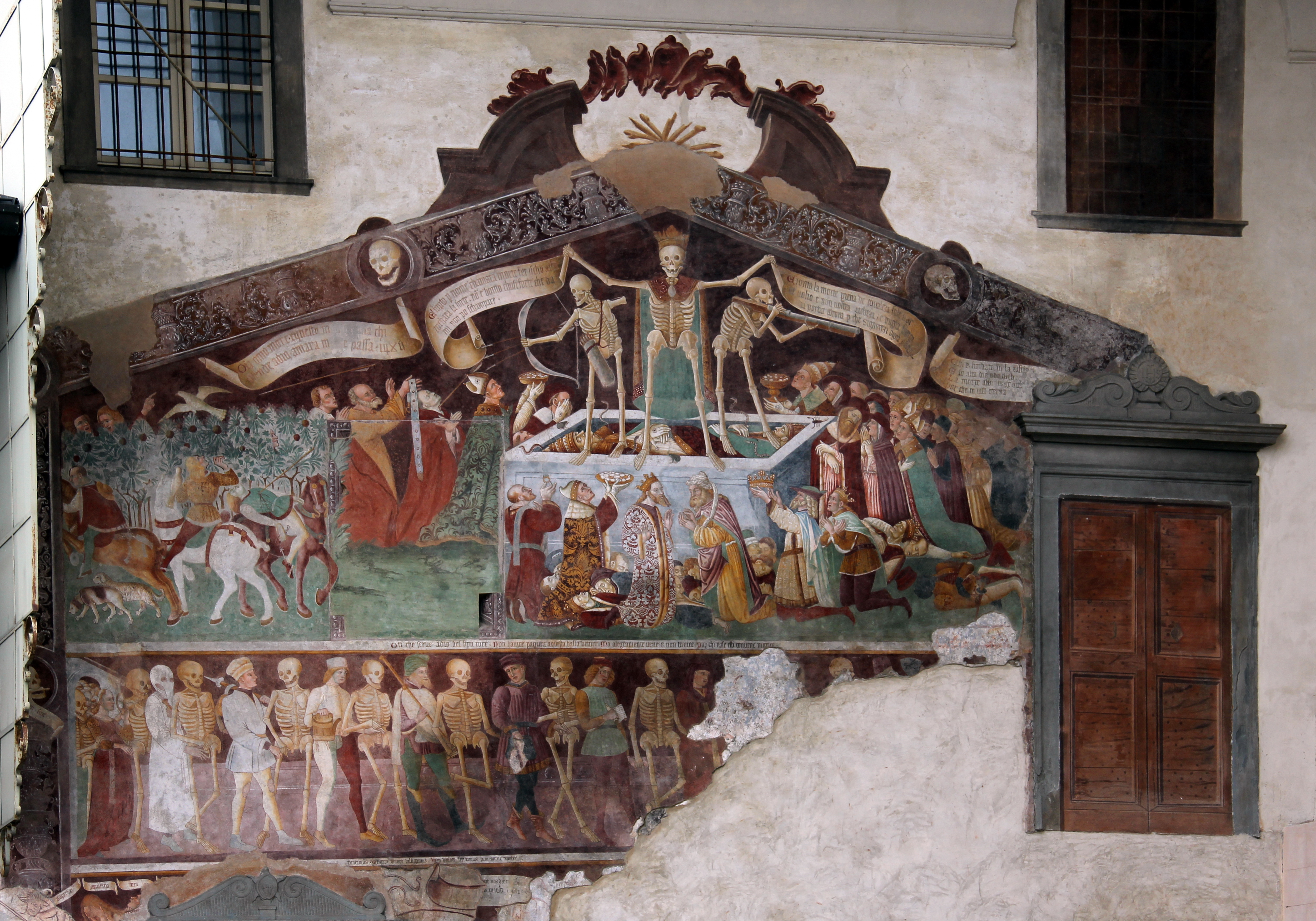 Oratorio dei Disciplini Native nameOratorio dei DiscipliniLocationClusone, Lombardy, ItalyCoordinates45° 53′ 29.4″ N, 9° 56′ 54.3″ E Established1484Authority control : Q3884417 institution QS:P195,Q3884417